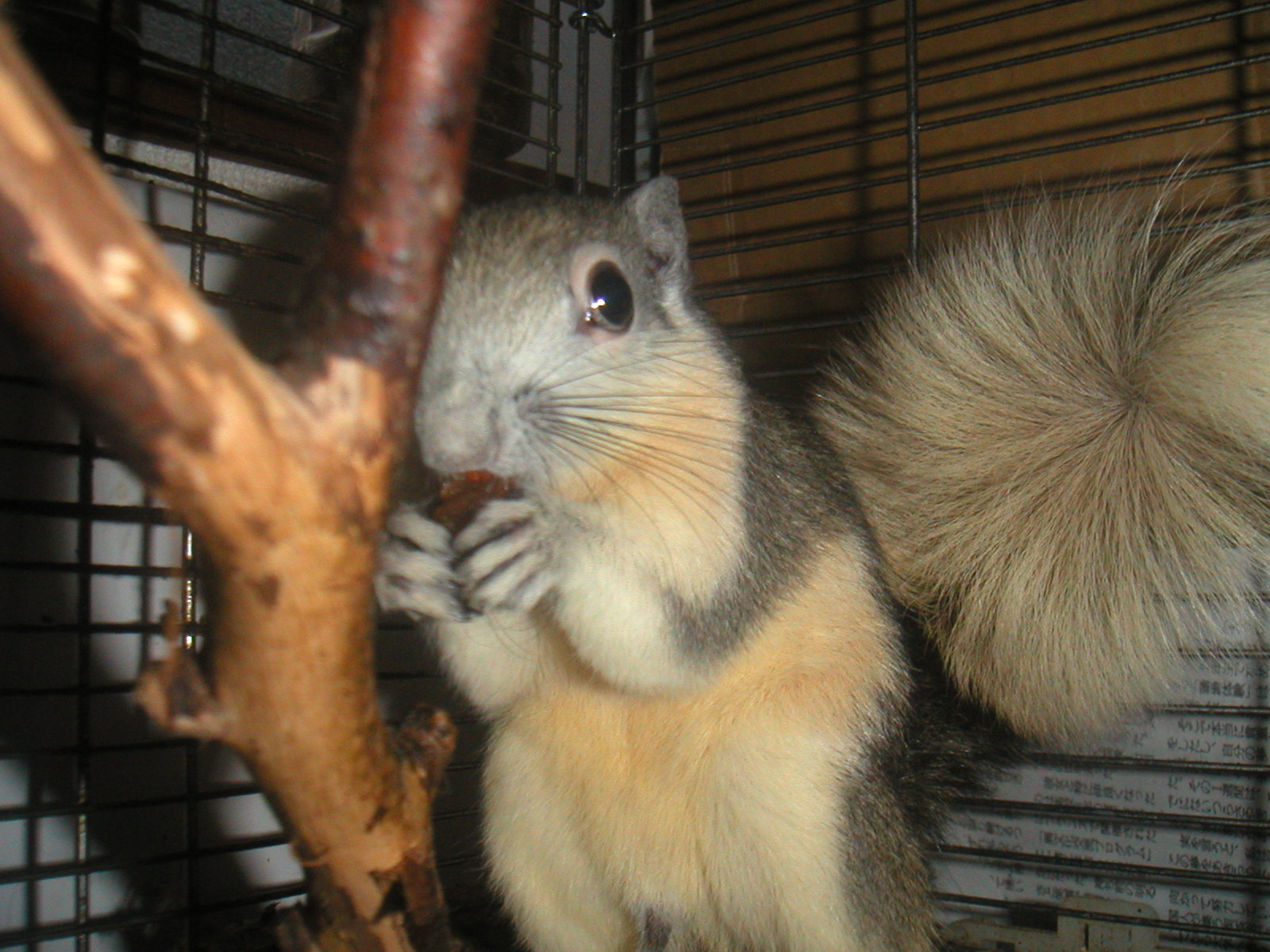 This is a pet I use to keep